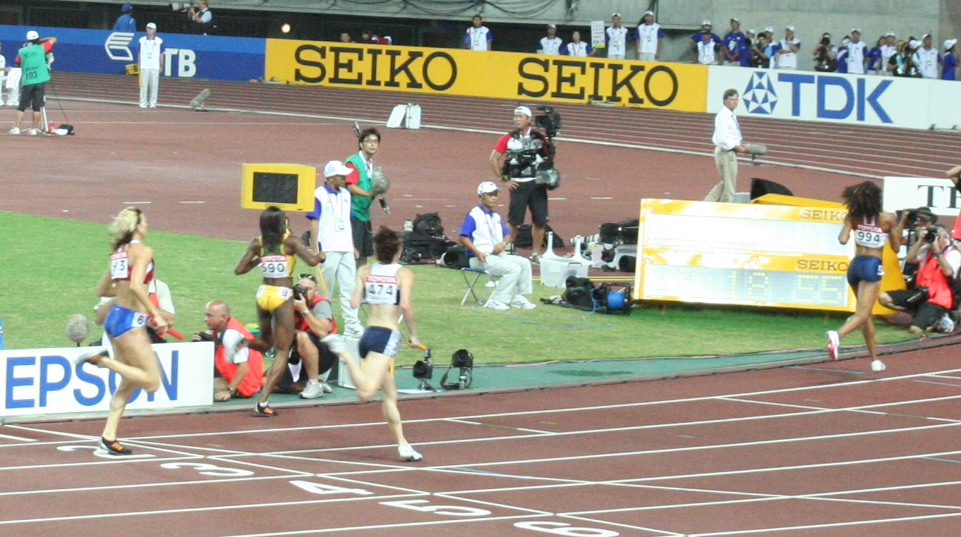 World Athletics Championships 2007 in Osaka - finish of the women's 4*400 metres relay race: Natalya Antyukh, Novlene Williams, Nicola Sanders, Sanya Richards